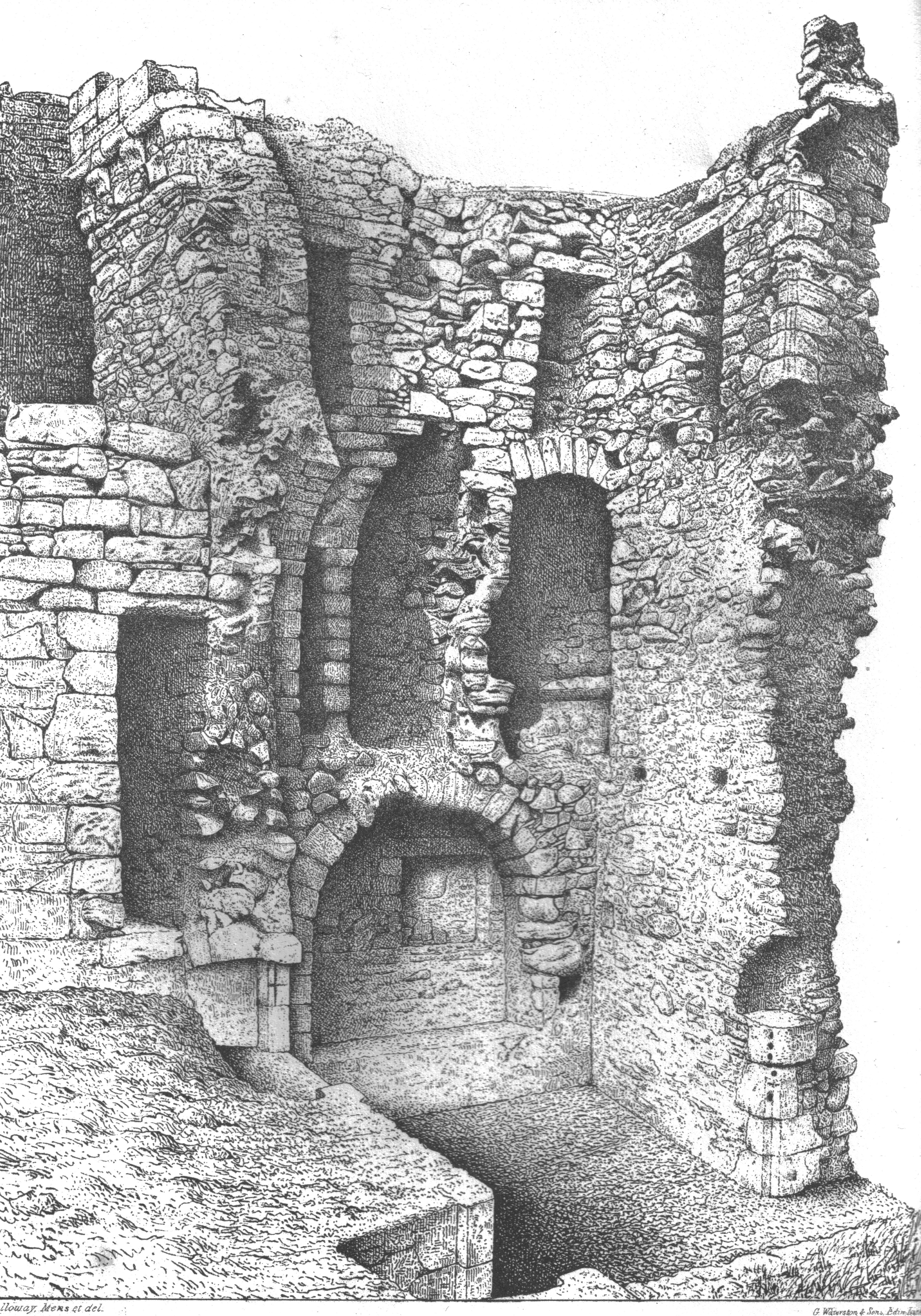 Seagate Castle, Irvine, Ayrshire, Scotland. Inside of the old or triangular tower.